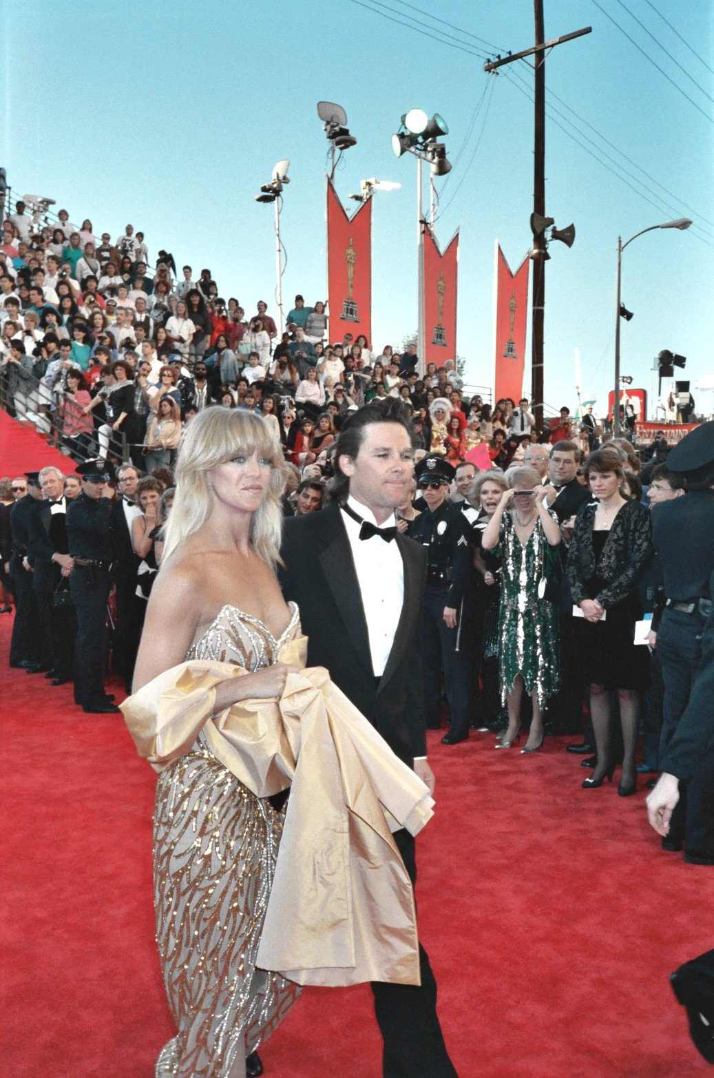 61st Annual Academy Awards, 1989. Scanned from the original 35MM film negative.